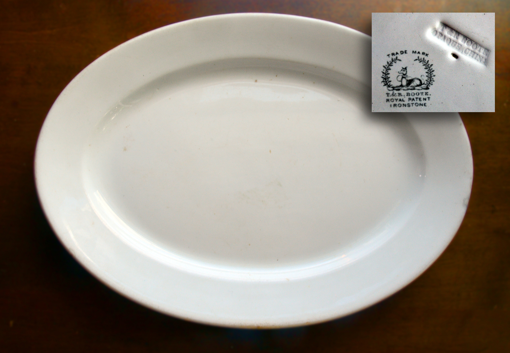 T(homas) & R(ichard) BOOTE 10"x13" white "ironstone" china serving platter, c1870 with maker's marks (inset)